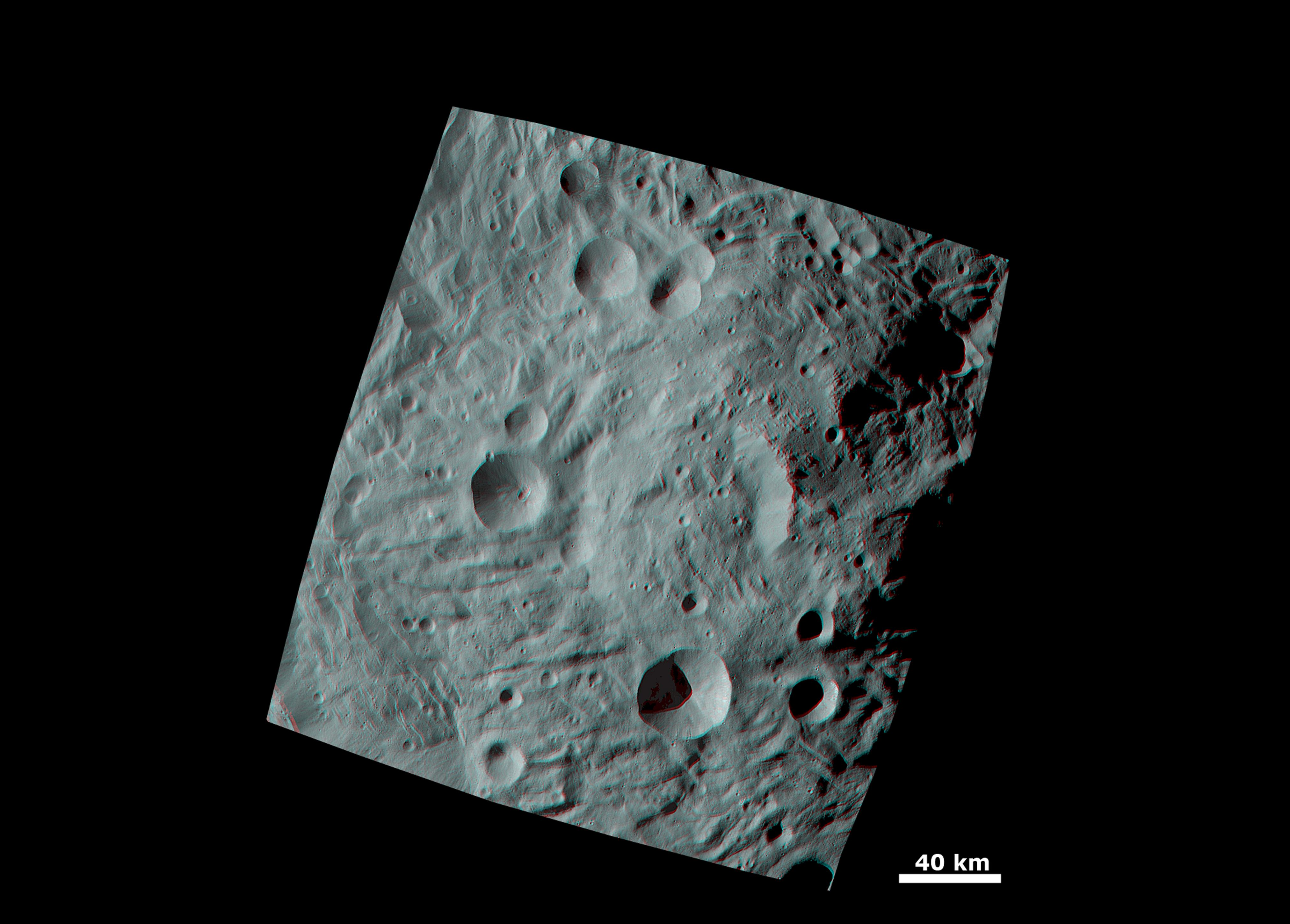 When NASA's Dawn spacecraft sent the first images of the giant asteroid Vesta to the ground, scientists were fascinated by an enormous mound inside a big circular depression at the south pole. From stereo images, recorded from an altitude of about 1,700 miles (2,700 kilometers) above the surface, it was possible to compose 3D images that show the structure of the mountain, displayed in the right half of this 3D image. The base of the mountain has a diameter of about 125 miles (200 kilometers), and its altitude above the surroundings is about 9 miles (15 kilometers). The vicinity of the peak of the mountain shows landslides that occurred when material from the flanks of the mountain were slipping down. Also visible are tectonic structures from tension in Vesta's crust. Use red-cyan (red-blue, or red-green) glasses to view the 3D impression of the image. Image resolution is about 260 meters per pixel. The Dawn mission to Vesta and Ceres is managed by NASA's Jet Propulsion Laboratory, a division of the California Institute of Technology in Pasadena, for NASA's Science Mission Directorate, Washington. UCLA is responsible for overall Dawn mission science. The Dawn framing cameras were developed and built under the leadership of the Max Planck Institute for Solar System Research, Katlenburg-Lindau, Germany, with significant contributions by DLR German Aerospace Center, Institute of Planetary Research, Berlin, and in coordination with the Institute of Computer and Communication Network Engineering, Braunschweig. The Framing Camera project is funded by the Max Planck Society, DLR, and NASA/JPL. More information about Dawn is online at and .